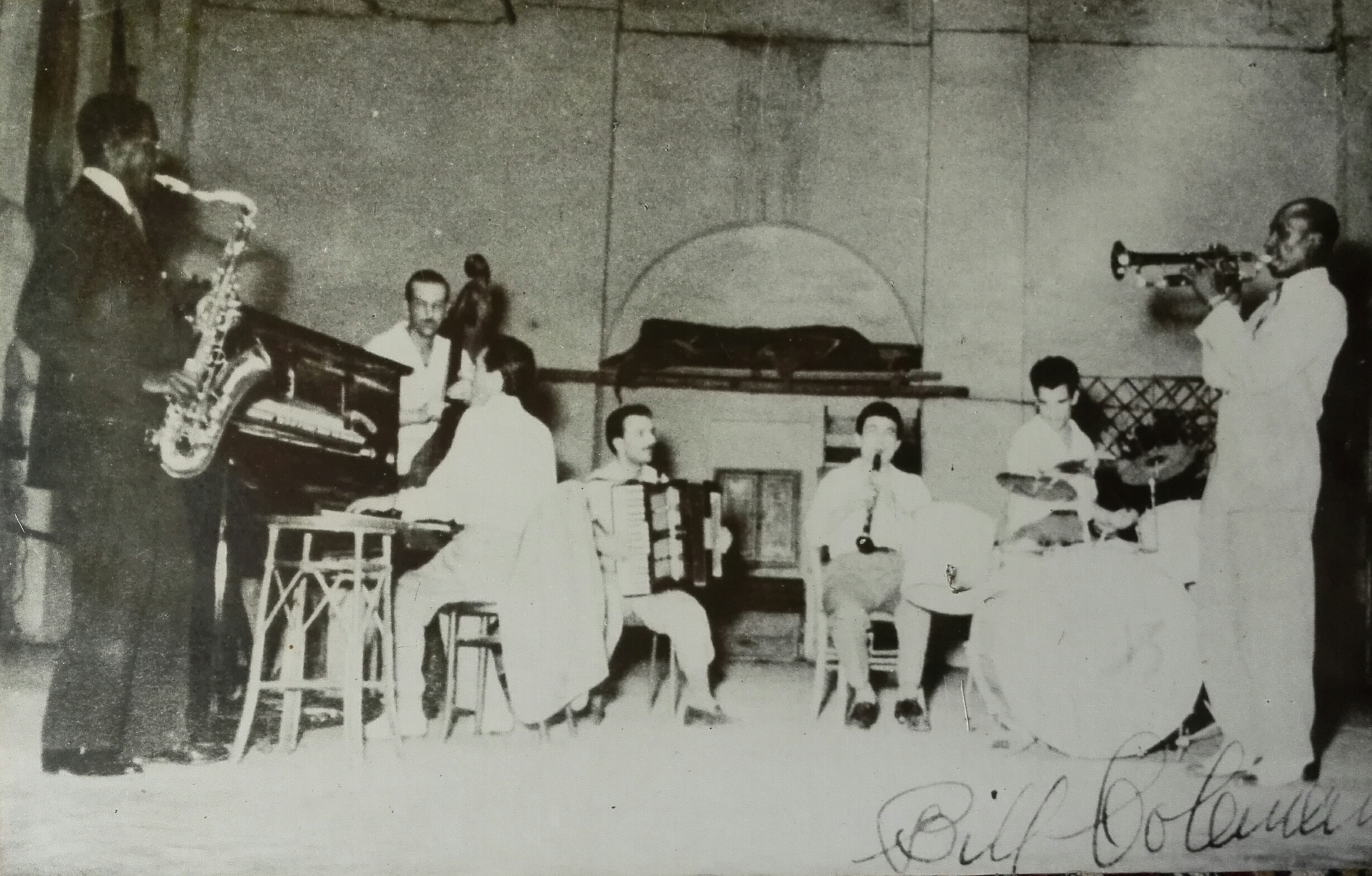 From left: Fred Palmer on tenor sax, Leopoldo Cepparello on double bass, Enzo Ceragioli on piano, Bruno Aragosti on accordion, Henghel Gualdi on clarinet, Franchino Camporeale on drums, Bill Coleman on trumpet. Viareggio, 1950